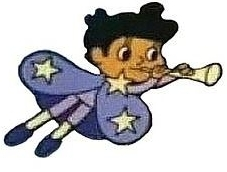 Сънчо